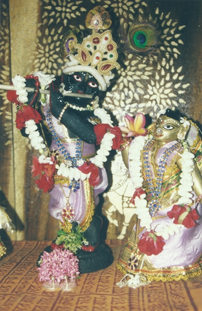 Krishnananda Dutta in his home in Andul, used to worship this deity. Later on,this worship passed onto their succeeding ancestor Bhaktivinoda.